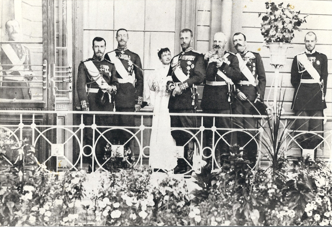 A Romanov gathering during the reign of Tsar Nicholas II